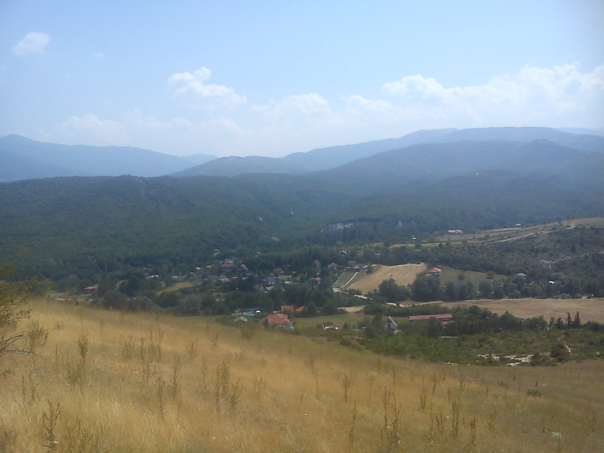 village of Markova Sushica, near Skopje, Macedonia